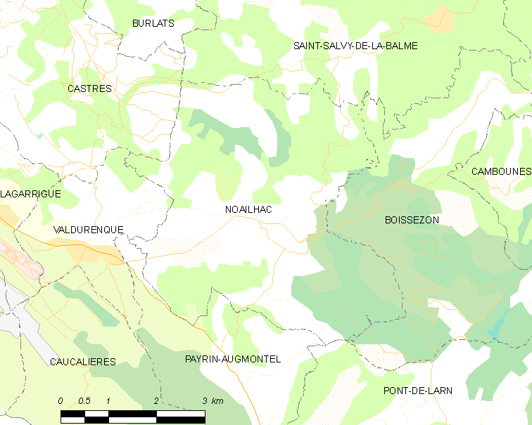 Map commune FR insee code 81196.png - Noailhac (Tarn)